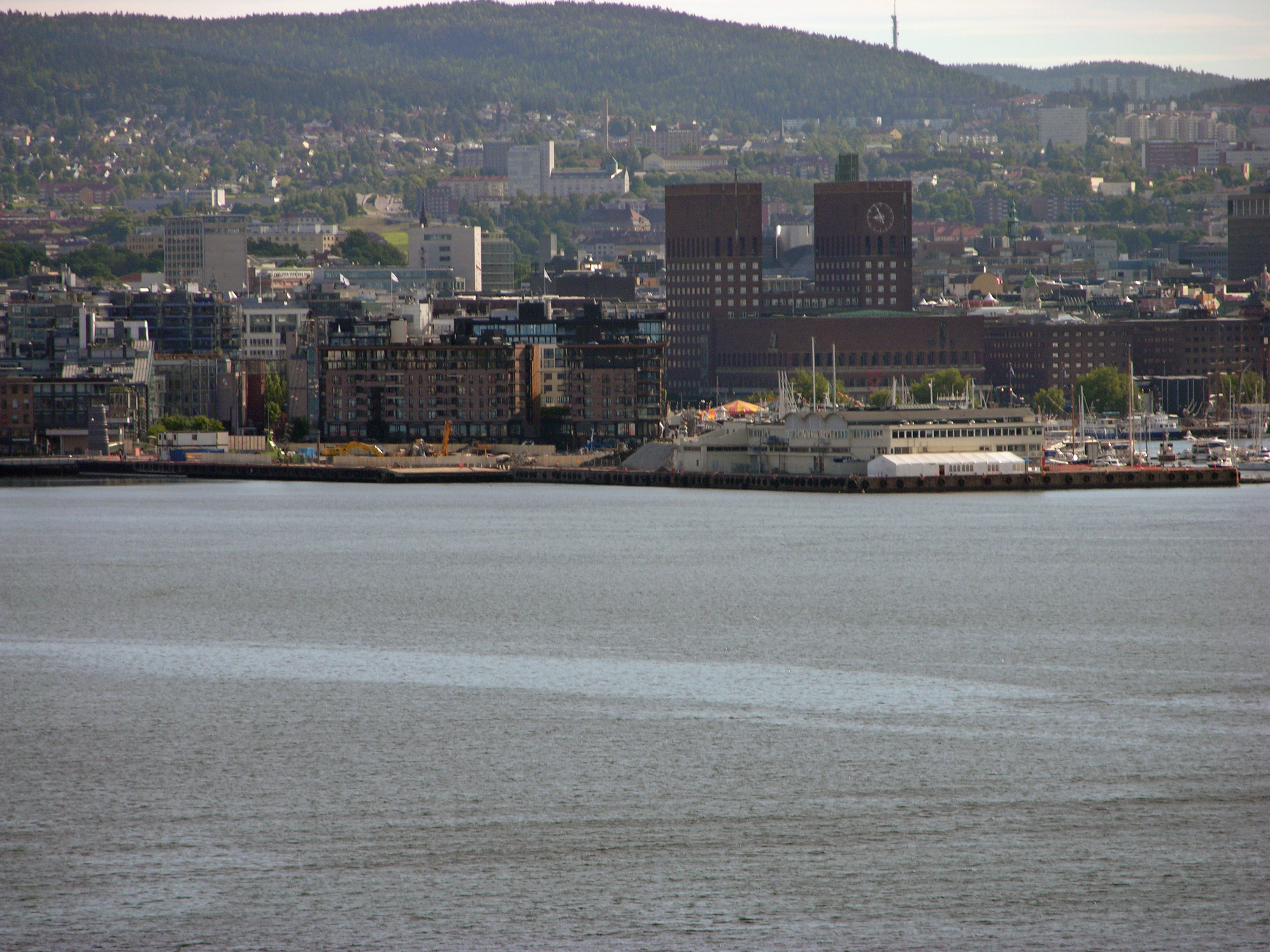 View of Oslo from the Fjord, with the Town House in the middle of the picture.